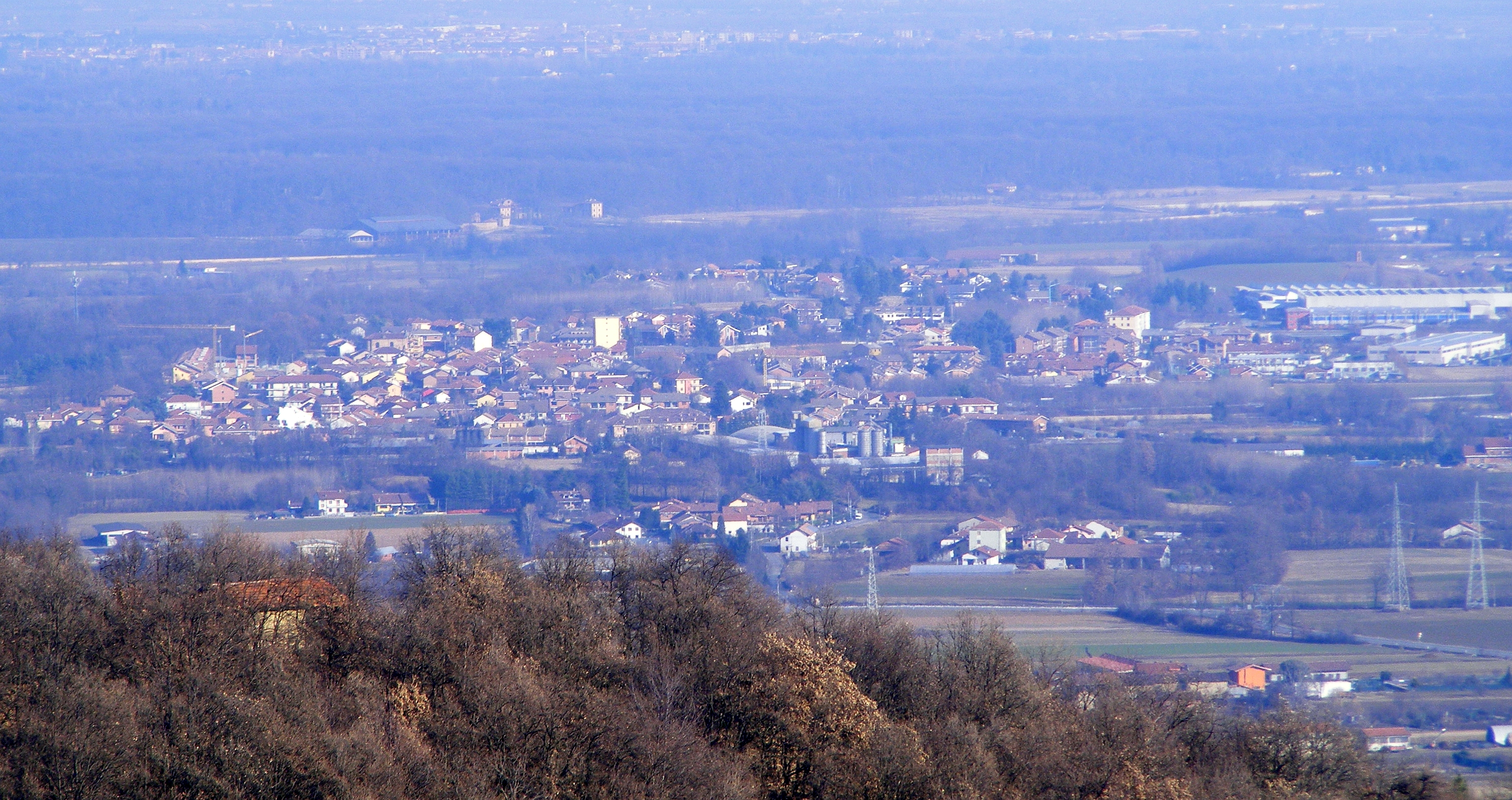 San Gillio (TO, Italy): panorama from north-east rideg of mount Musinè